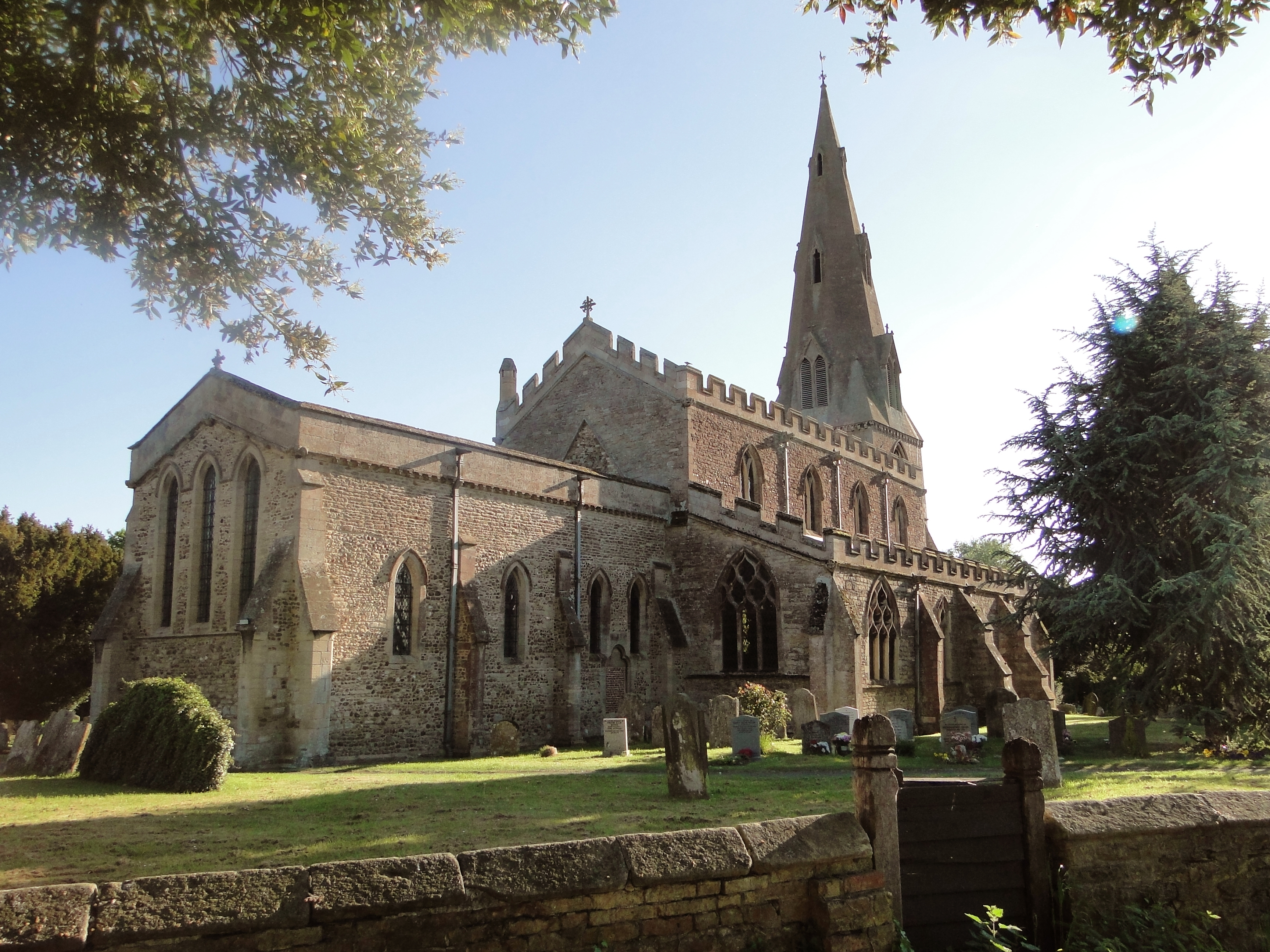 SS Peter and Paul parish church, Alconbury, Cambridgeshire (formerly Huntingdonshire), seen from the northeast